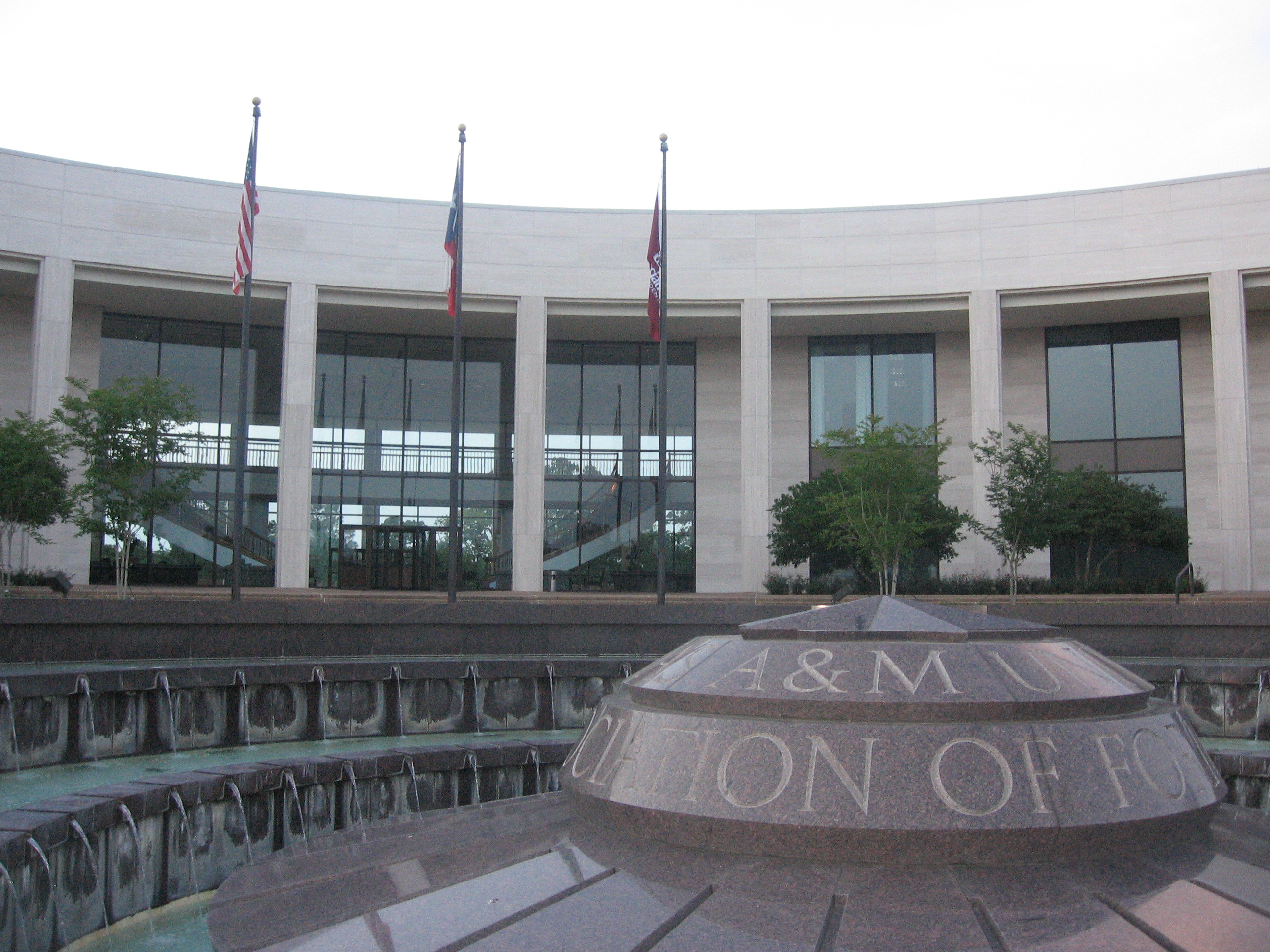 The Clayton Alumni Building: The Association of Former Students